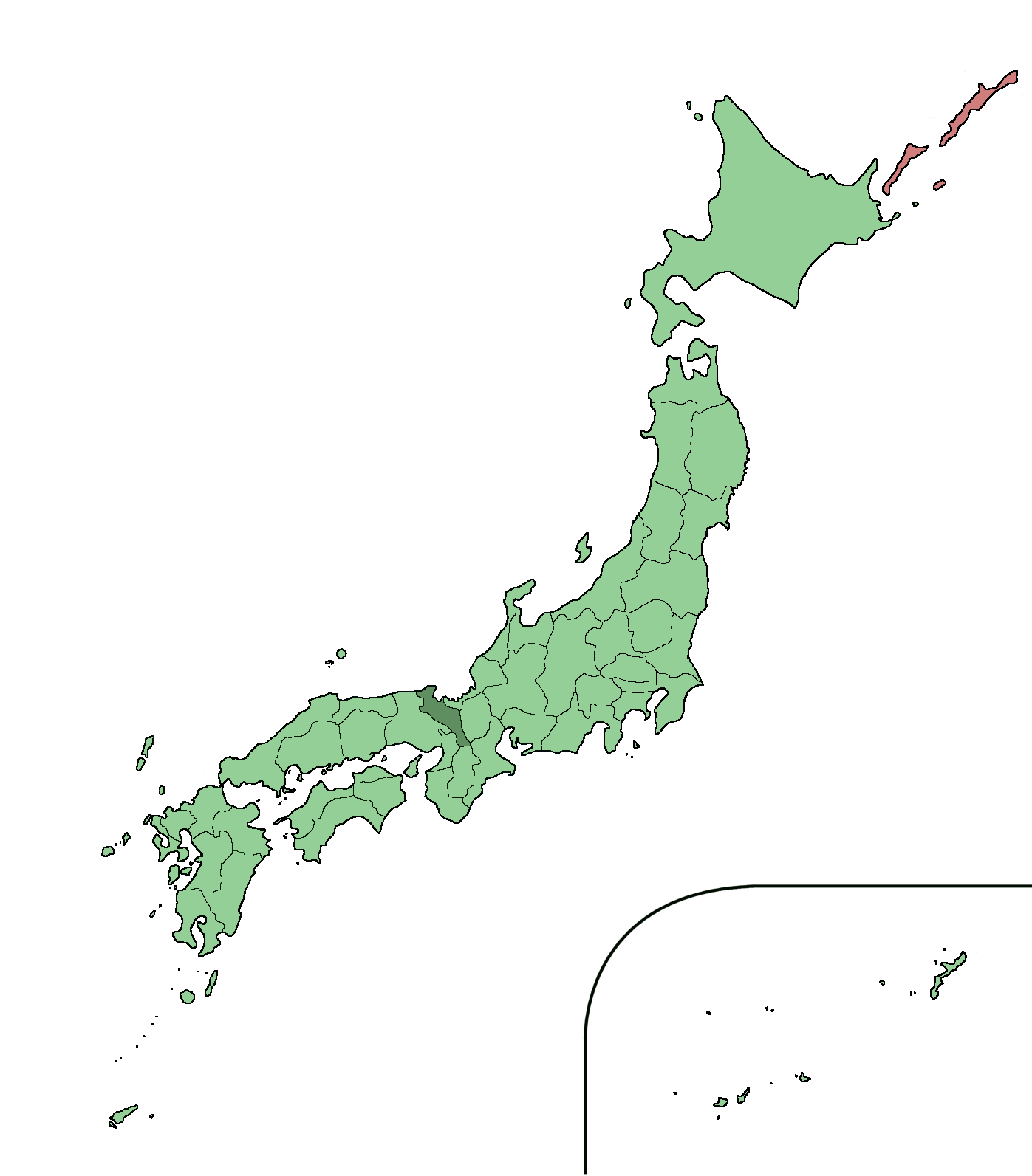 Large size map of Japan with Kyoto highlighted, self made but originally based on a japanese mapbook.